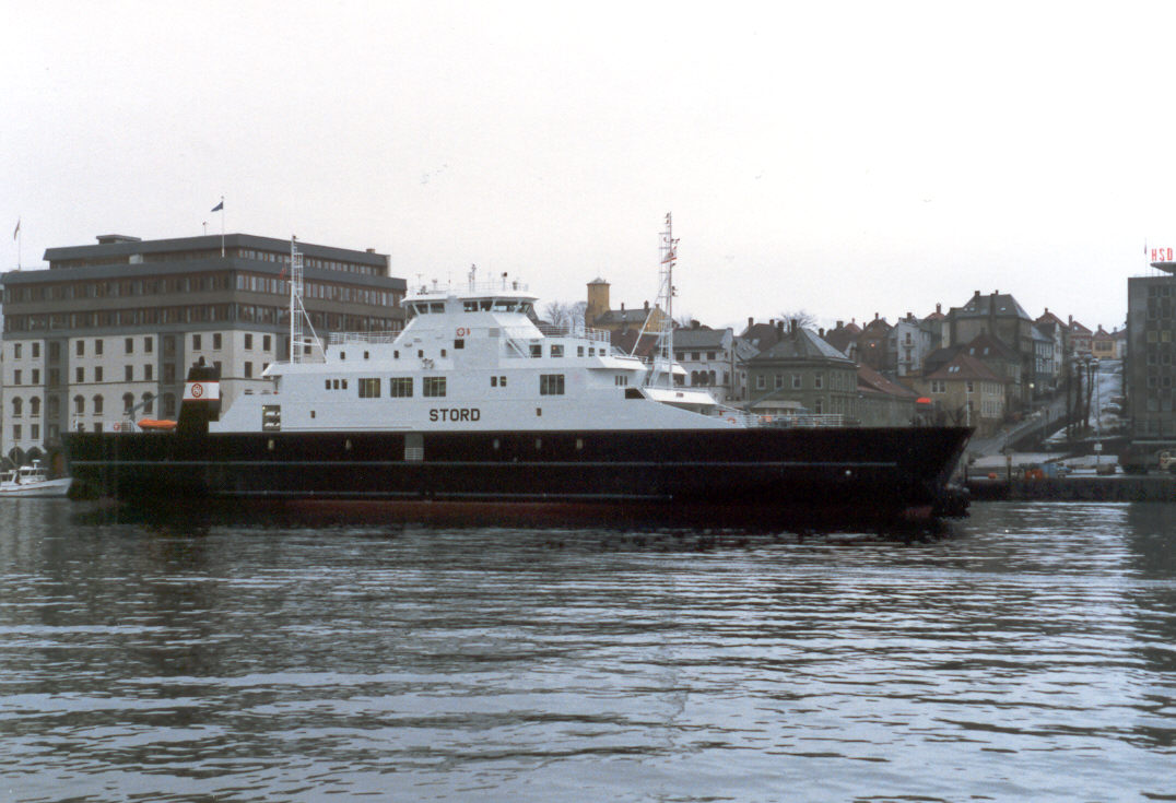 MF Stord, built in 1987.